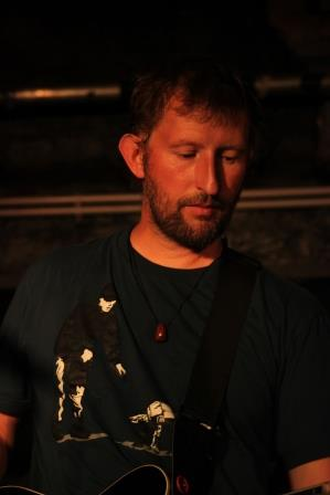 Heinz Ratz (2014)